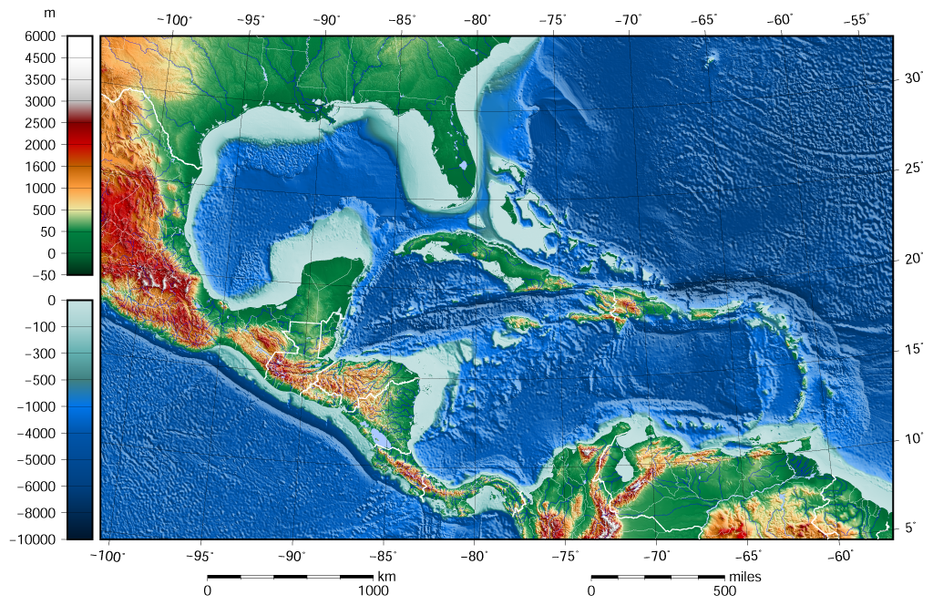 The shaded relief bathymetry and land map of the Caribbean Sea and Gulf of Mexico area. The map was created using the Generic Mapping Tools, GMT, version 5.1.1.